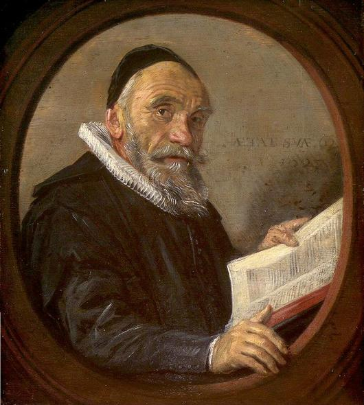 Portrait of Johannes Acronius. An engraving by Jan van de Velde used this painting as a modello, which being dated the year of the sitter's death, is possibly a posthumous portrait made for the purpose of making the print.